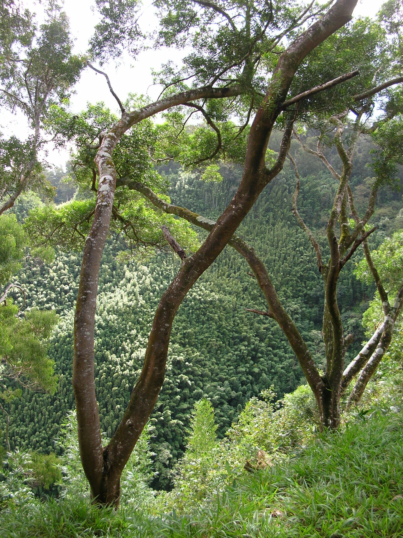 Acacia confusa (habit). Location: Maui, Waikamoi trail